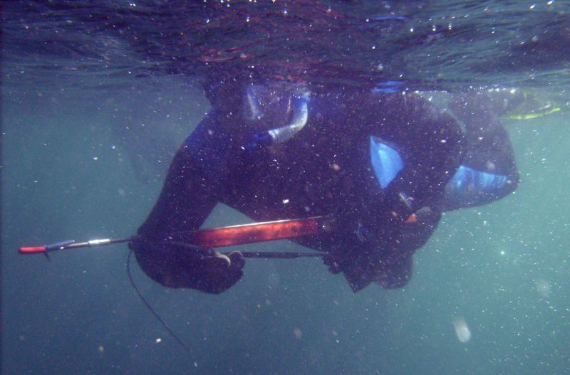 Speargun